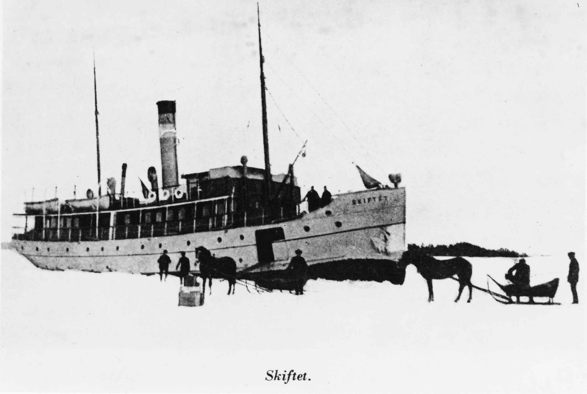 Steamship Skiftet during wintertime.